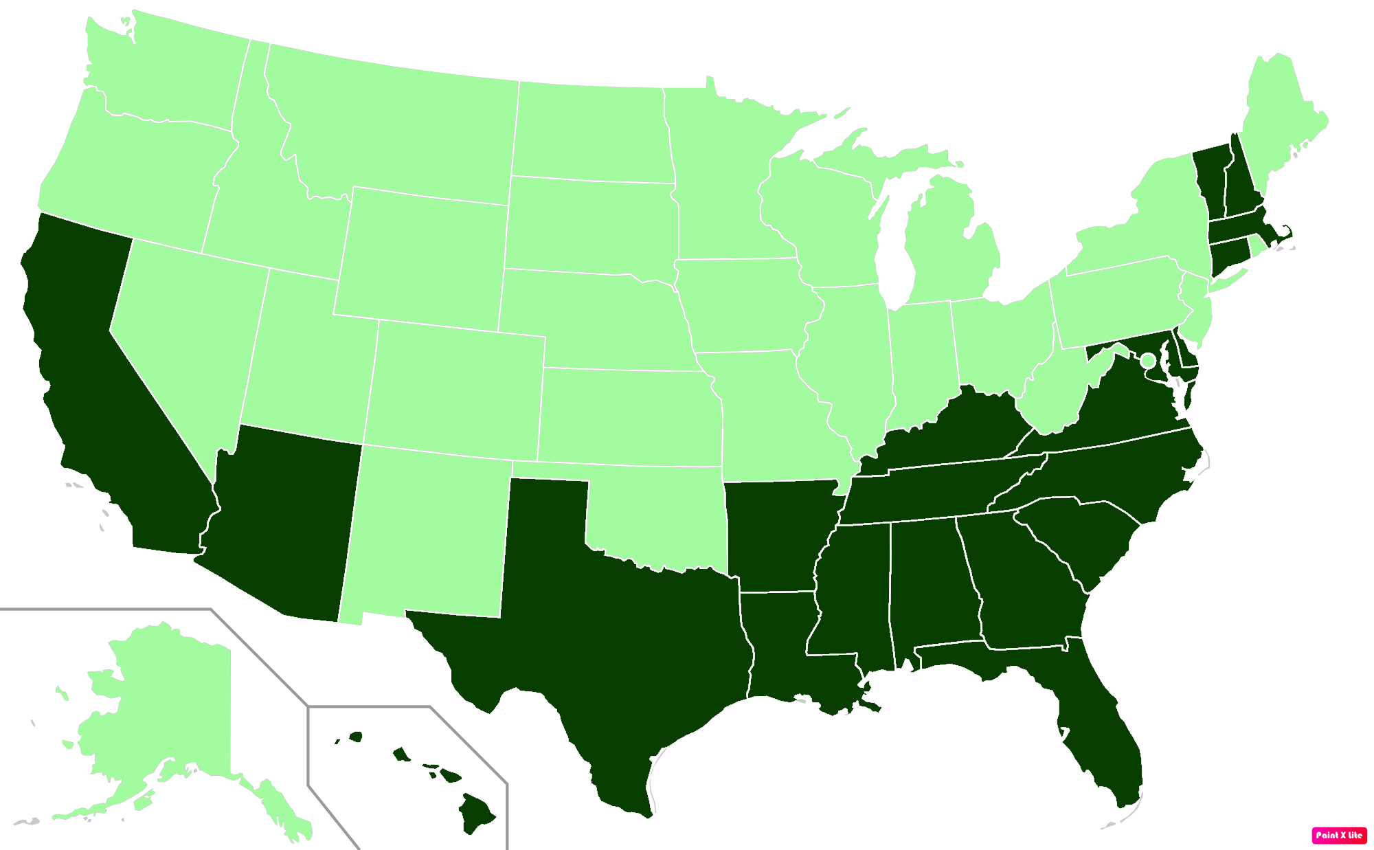 Residential Sector Energy Price Estimates (Dollars per Million Btu), 2017. Data from Energy Information Administration. ( States with residential energy price estimates higher than the United States as a whole in dark green.